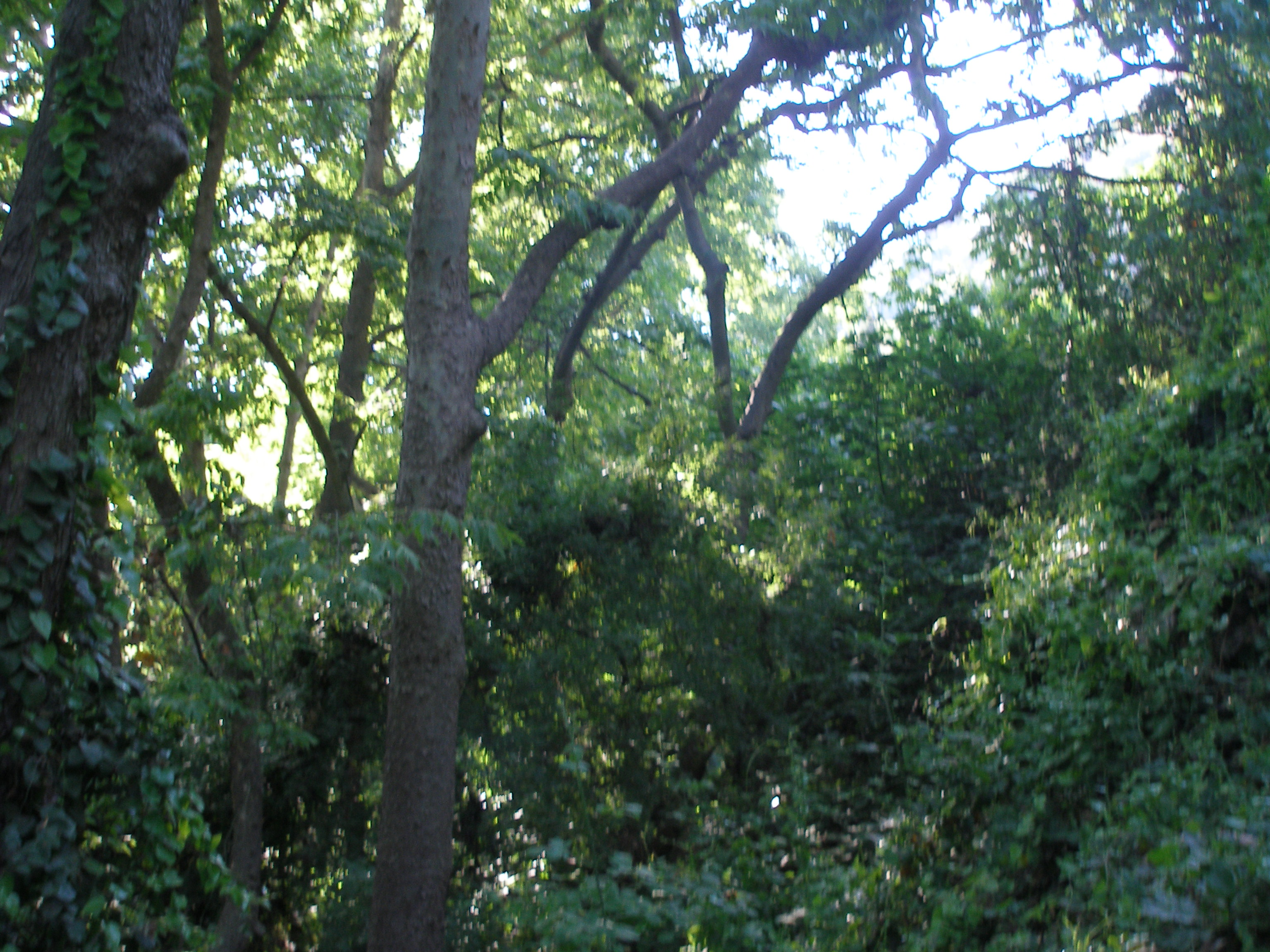 Mediterranean forests, the Upper Galilee